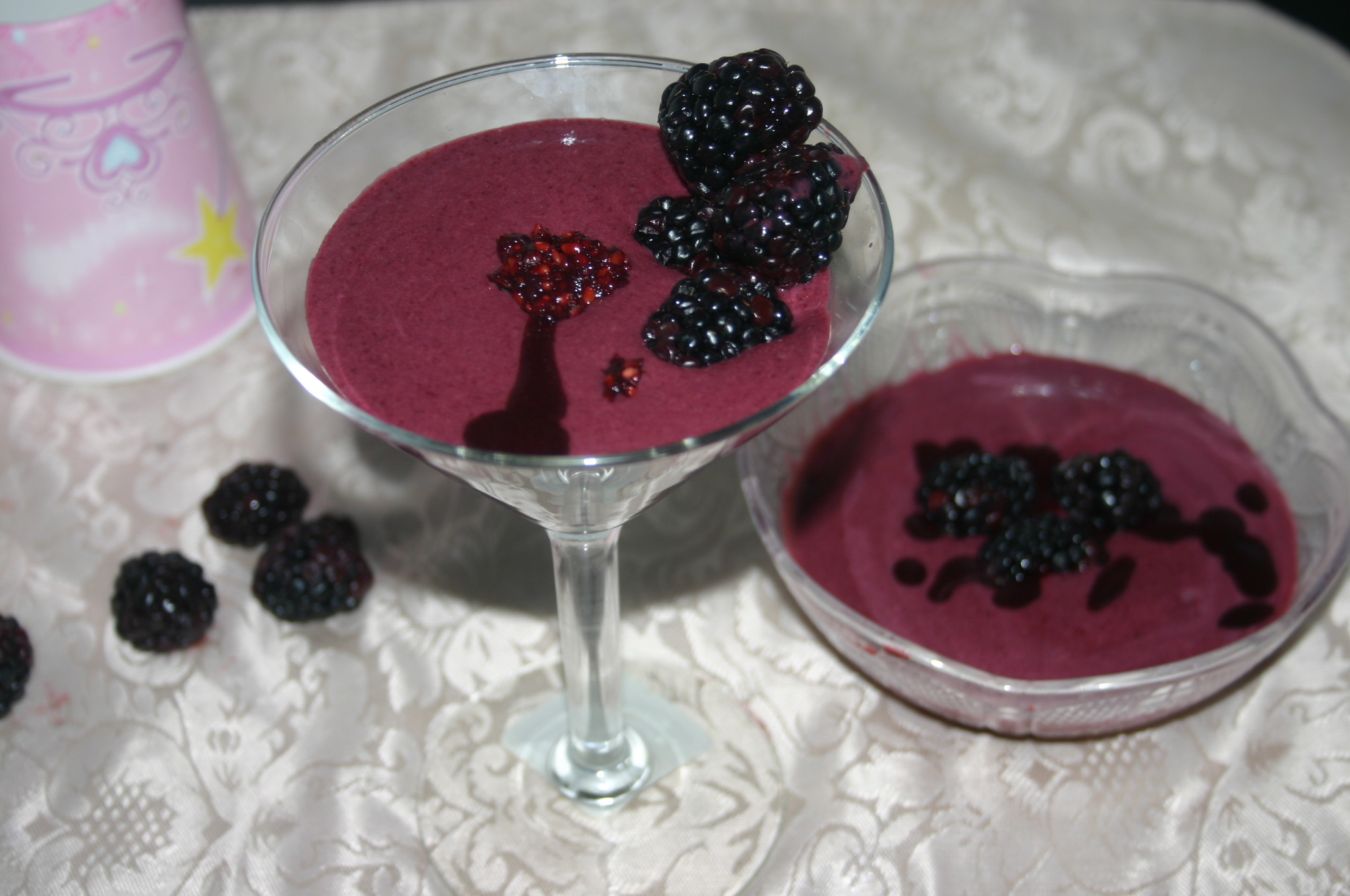 a simple dessert made with blackberry purée and sweetened whipped cream